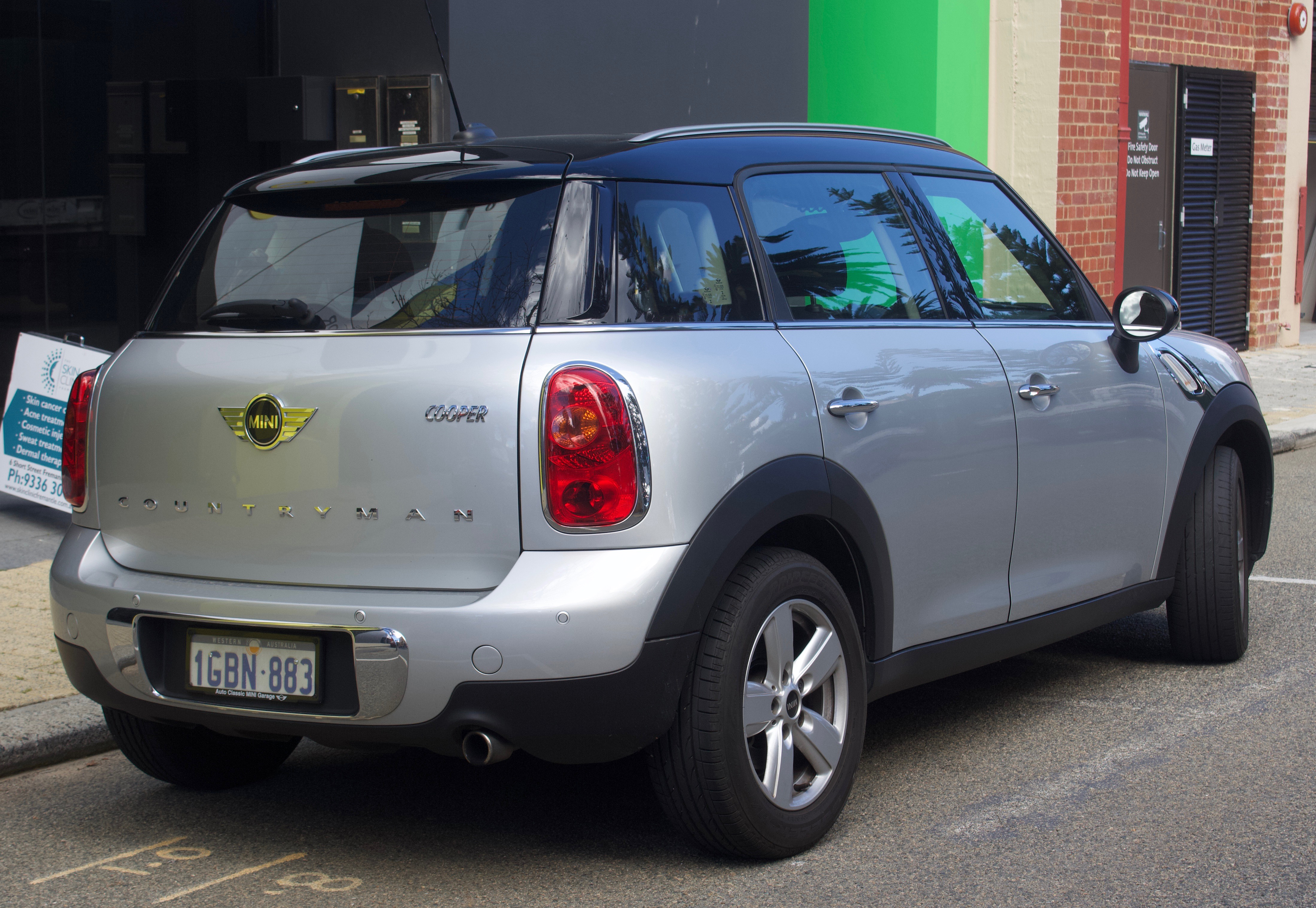 2016 Mini Countryman (R60 LCI) Cooper hatchback. Photographed in Fremantle, Western Australia, Australia.